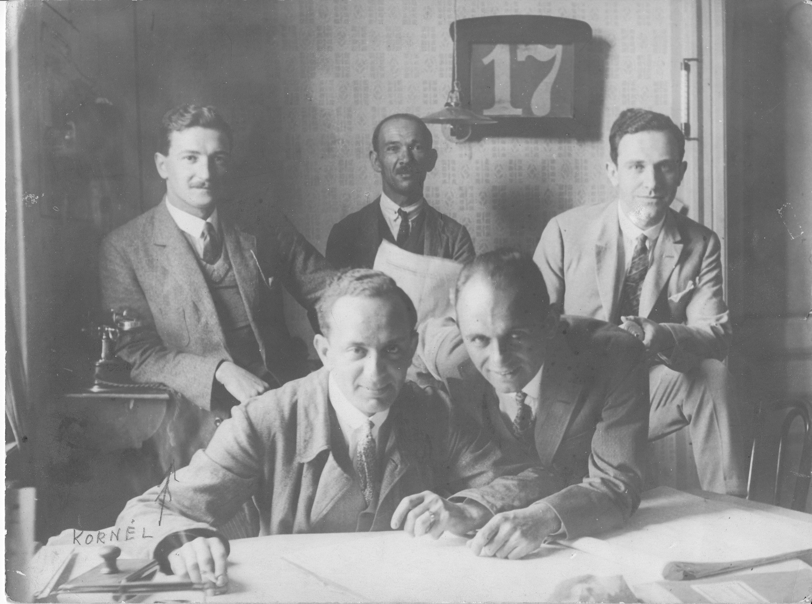 Diploma engineer Gábor Kornél Tolnai in his precision-tool workshop for mechanic with some of his engineering workers in Mester utca 13 in Budapest, Hungary. Kornél Tolnai himself is to left. Photography from 1931.